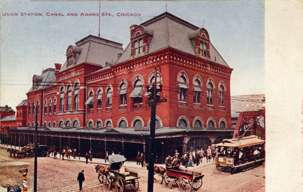 Union Station, Canal and Adams Street